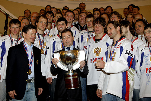 THE KREMLIN, MOSCOW. With players from the Russian national hockey team.